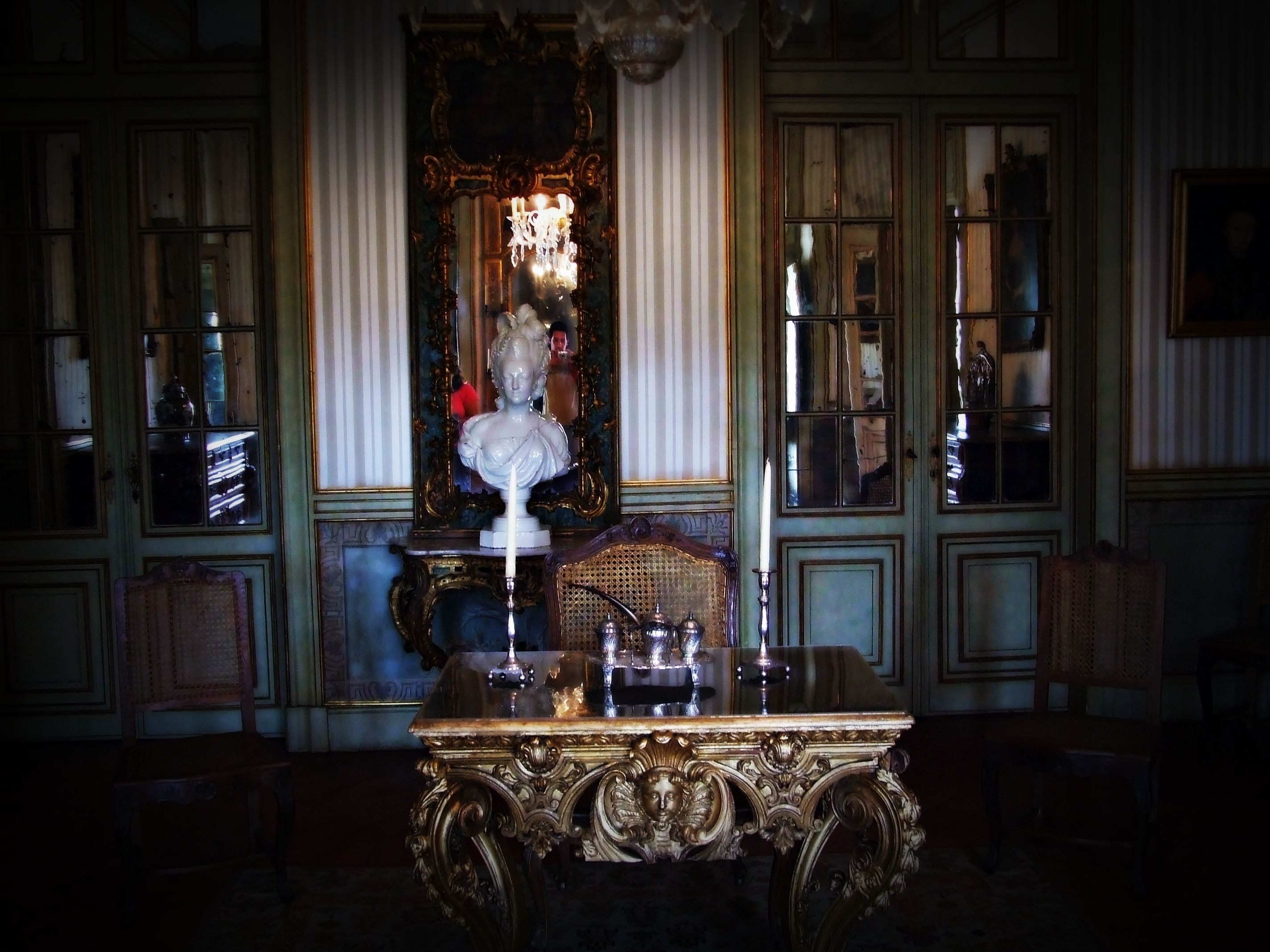 This file was uploaded for Wiki Loves Monuments in Portugal with the unique identifier 70181.